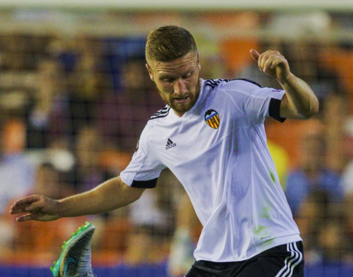 Shkodran Mustafi